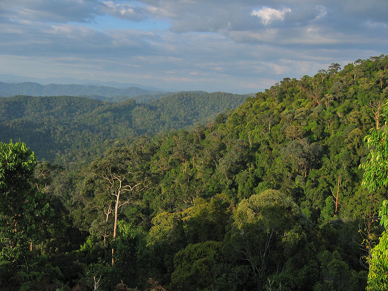 Forest of Taman Negara National Park